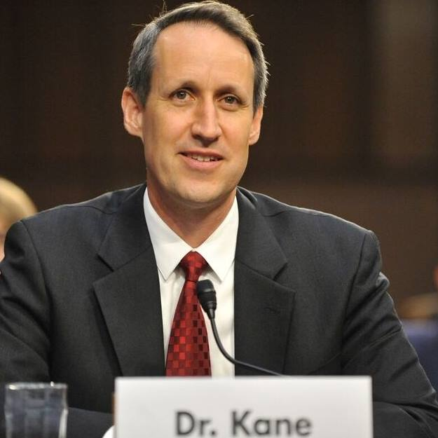 Dr. Tim Kane testifies before the Joint Economic Committee